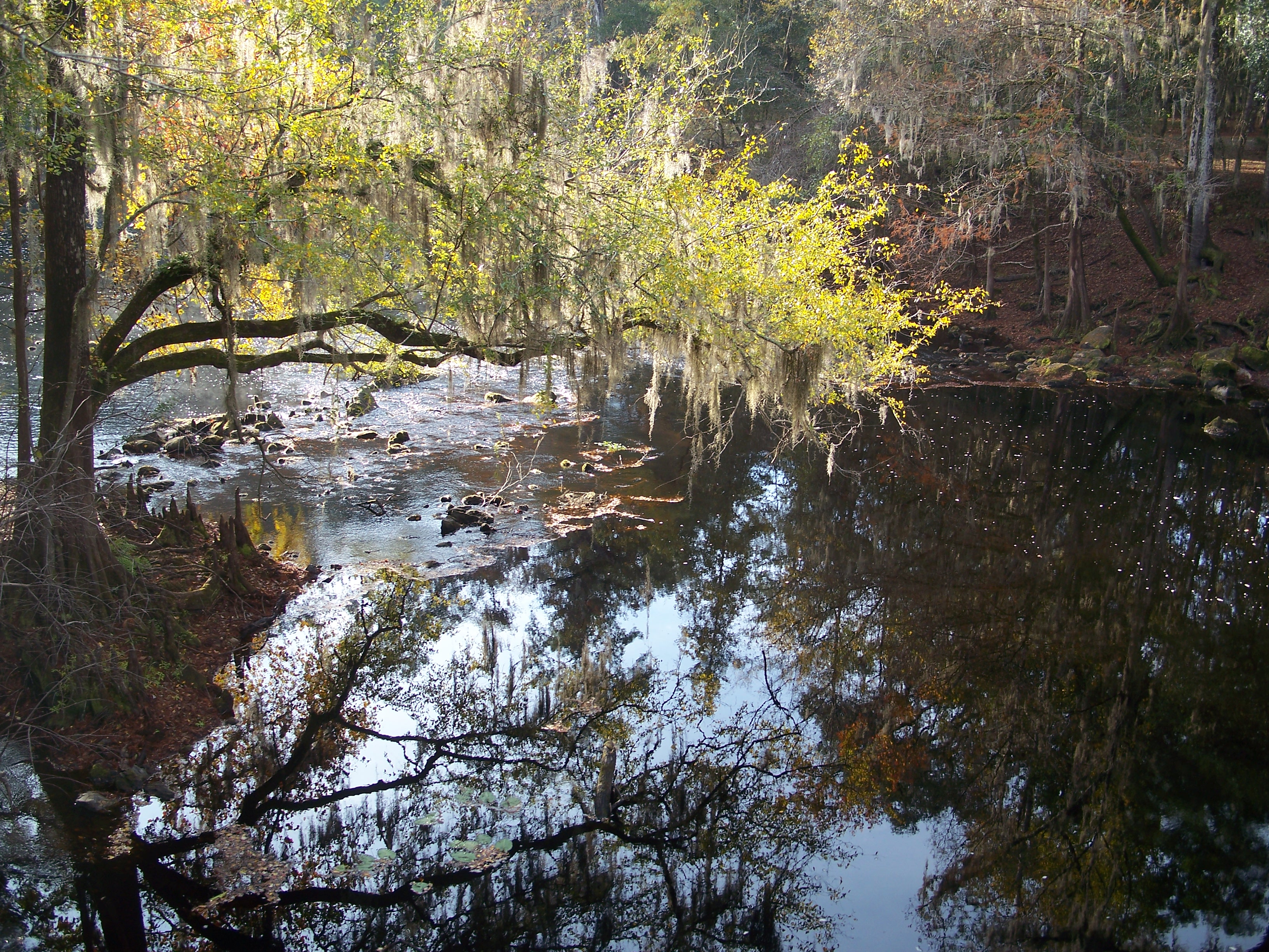 O'Leno State Park: Santa Fe River, looking south from the bridge in the park.